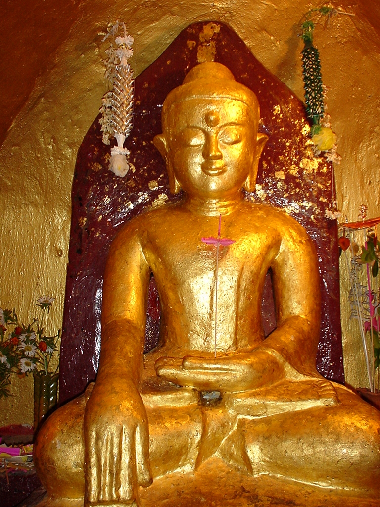 The famous Shwezigon Pagoda Buddha in Myanmar/Burma. Photo taken by myself Matthew Laird Acred Website